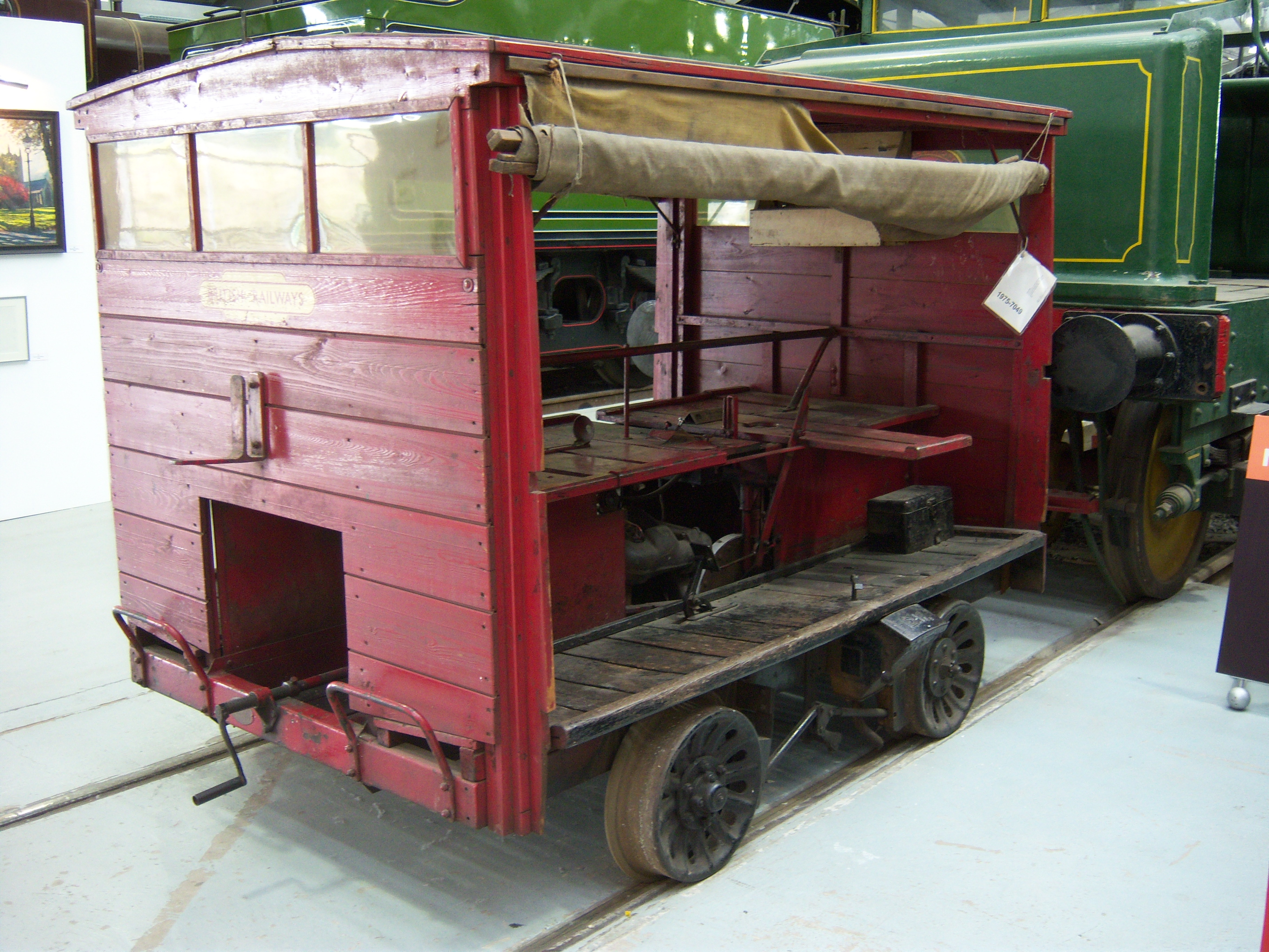 At Locomotion railway museum in Shildon, County Durham.